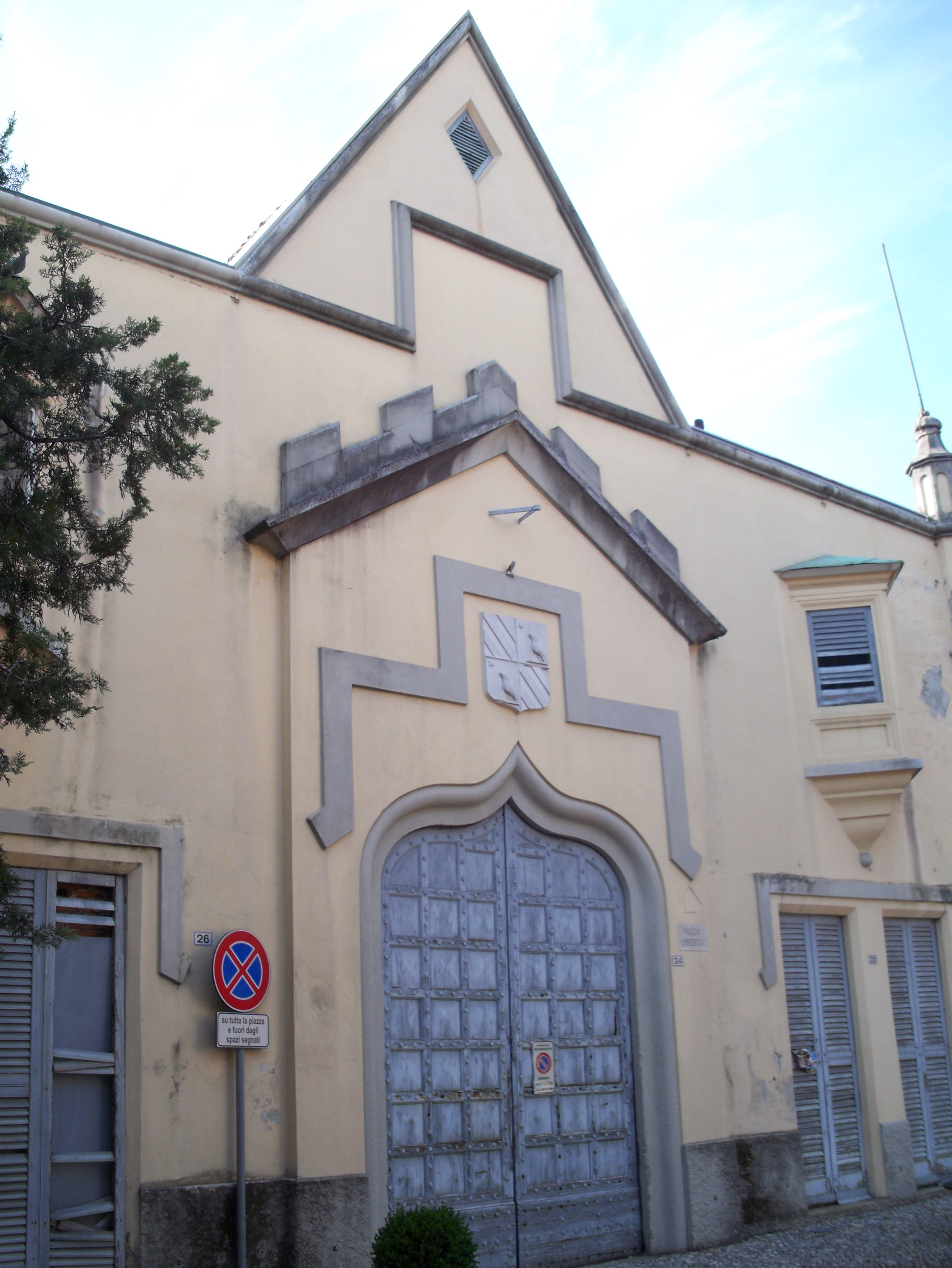 Villa Casana, Novedrate